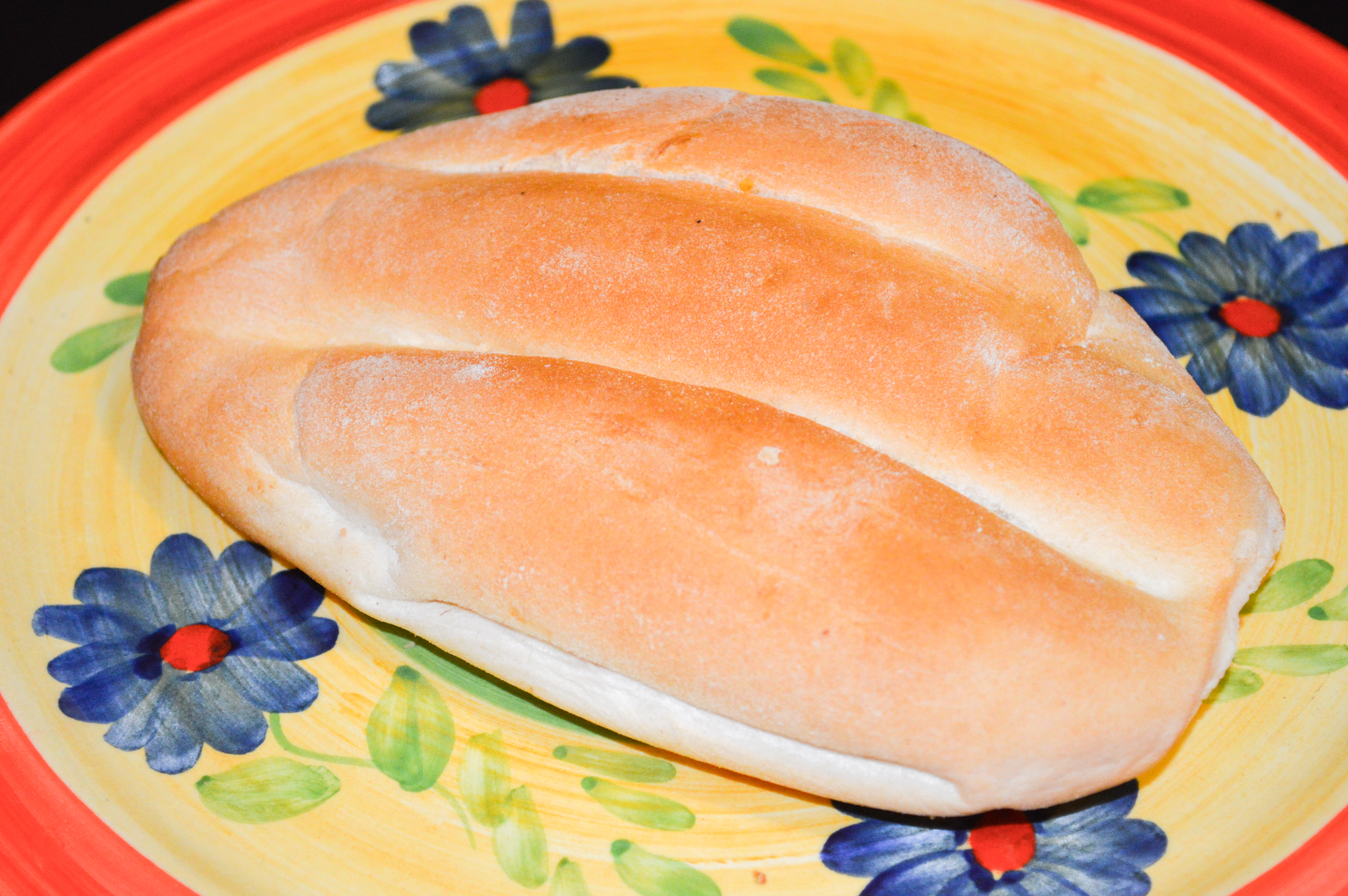 simple white roll called a telera from the bakery at the Comercial Mexicana supermarket in Colonia Asturias, Mexico City